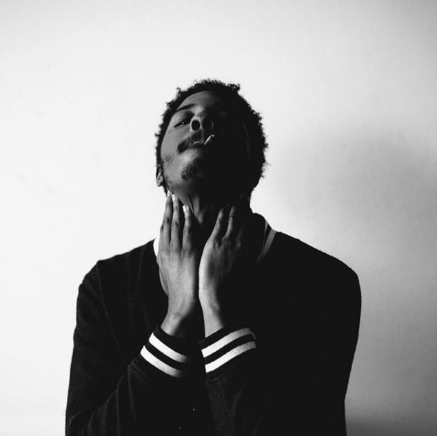 Sean Leon